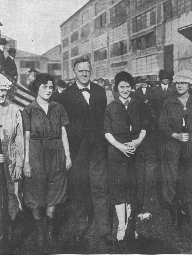 The Secretary of the Navy with female munnition workers from New York, 1919.